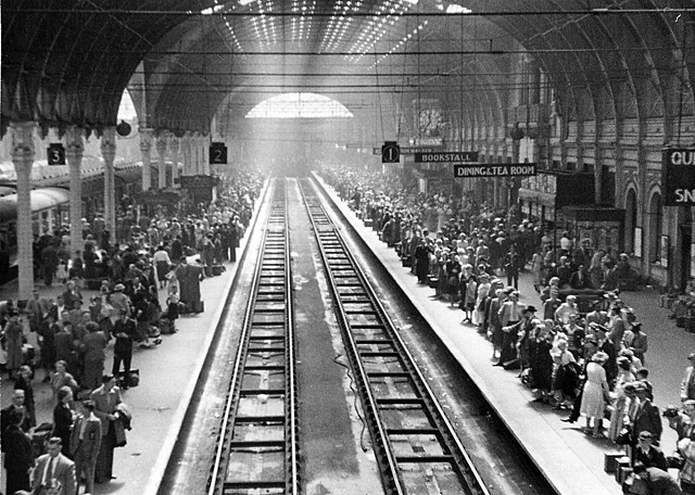 Paddington Station, with holiday crowds. View SE along Platforms 1 and 2 lines to buffer-stops, on a peak Summer Saturday morning in 1953. (Note the smart clothes!)